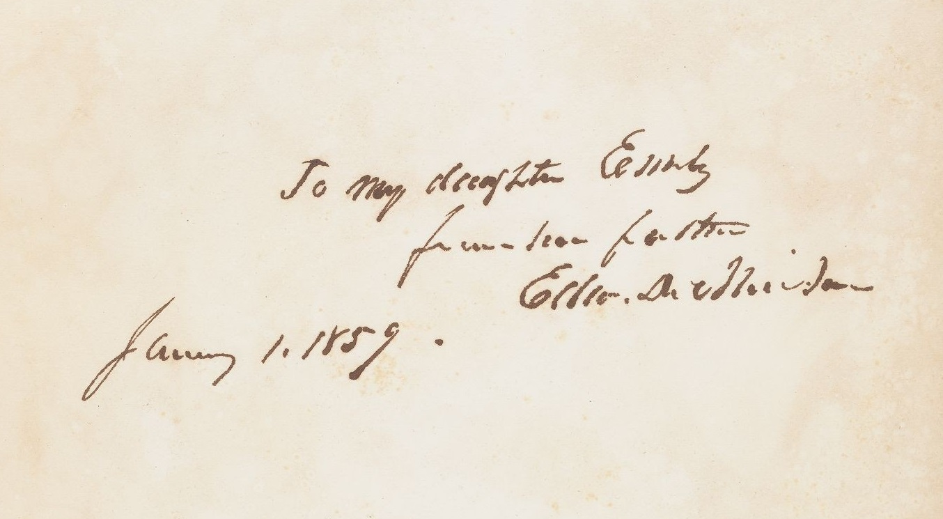 Inscription from Edward Dickinson to his daughter Emily Dickinson, January 1, 1859. From a copy of Wild Flowers Drawn and Colored from Nature, New York: Charles Scibner, 1859, by Mrs. C. M. Badger. EDR 467, Houghton Library, Harvard University